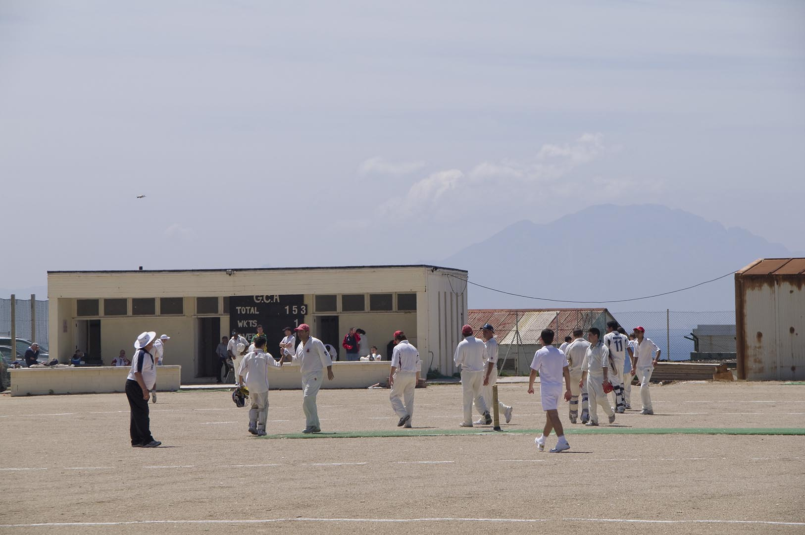 Cricket at Europa point in Gibraltar Africa (Jebel Musa) beyond